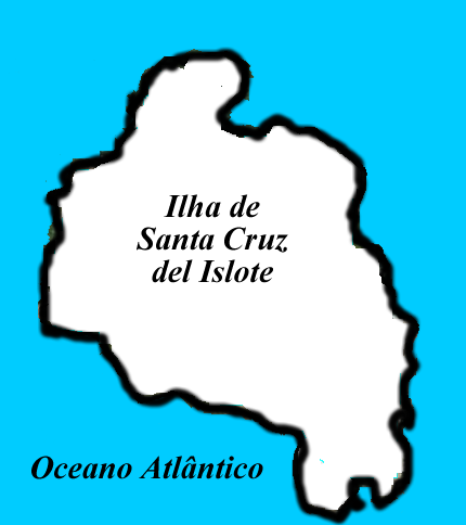 Map in Portuguese of the Colombian island of Santa Cruz del Islote.